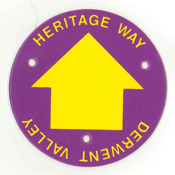 The official roundel for the Derwent Valley Heritage Way